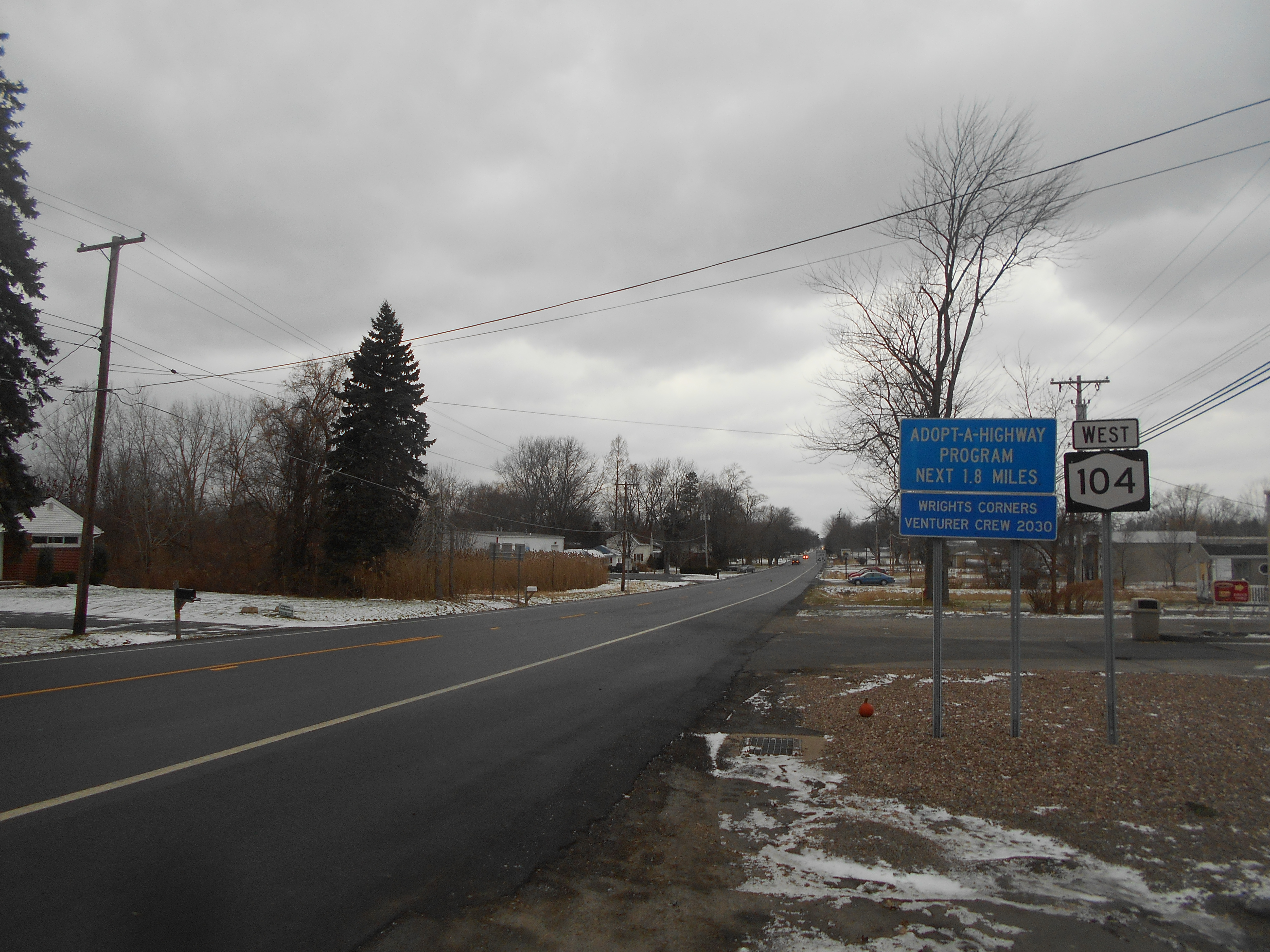 New York State Route 104 westbound in Newfane, New York after leaving New York State Route 78.